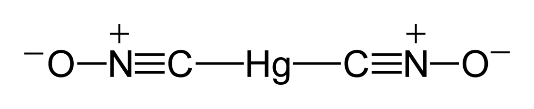 Structural formula of the mercury fulminate molecule